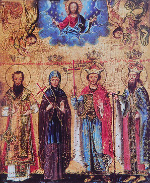 Icon depicting Saints Maksim, Angelina, Jovan and Stefan Branković, painted in ca. 1645 by Andreja Raičević.[1] Held at the Krušedol monastery.